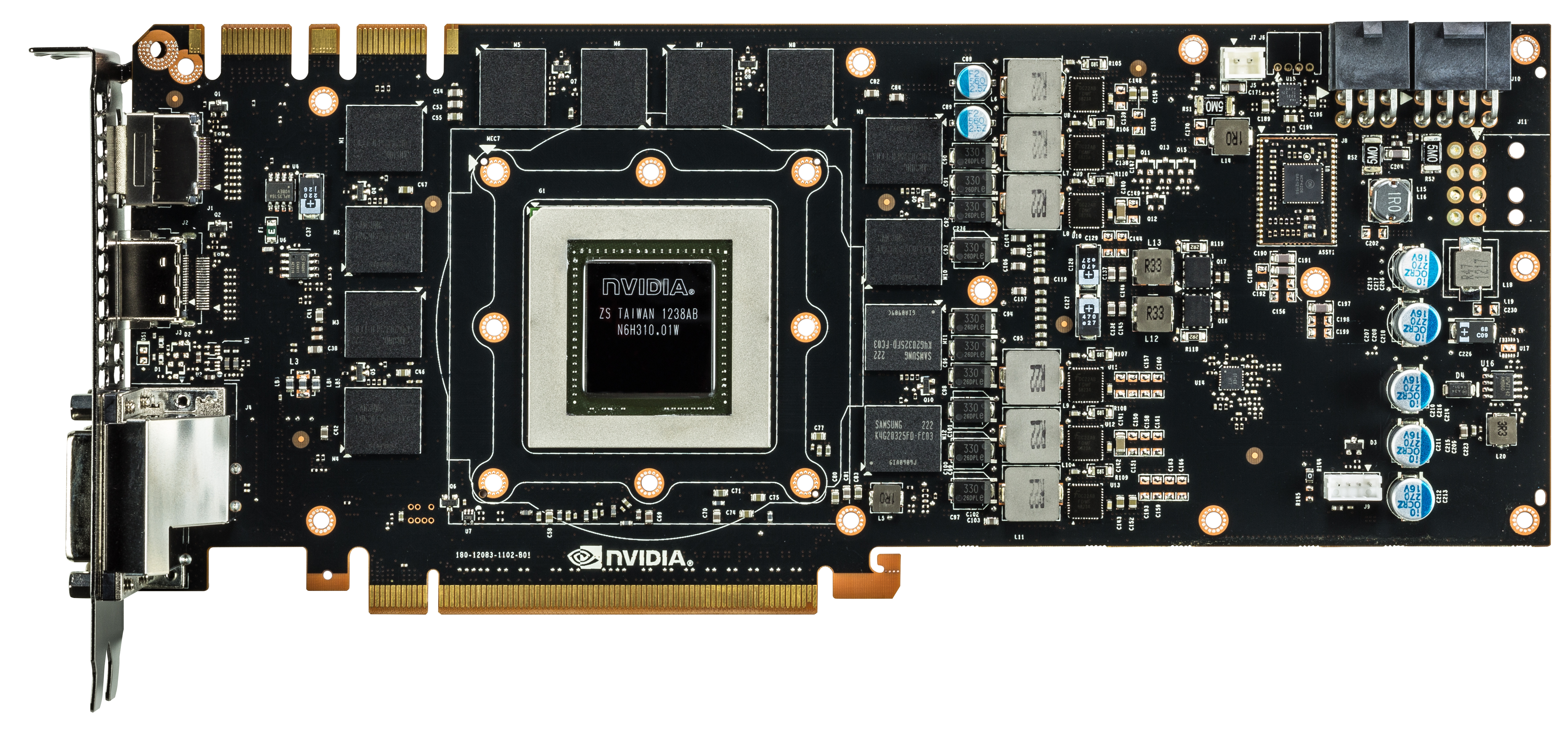 The PCB of an Nvidia GTX 780 with the heatsink removed.